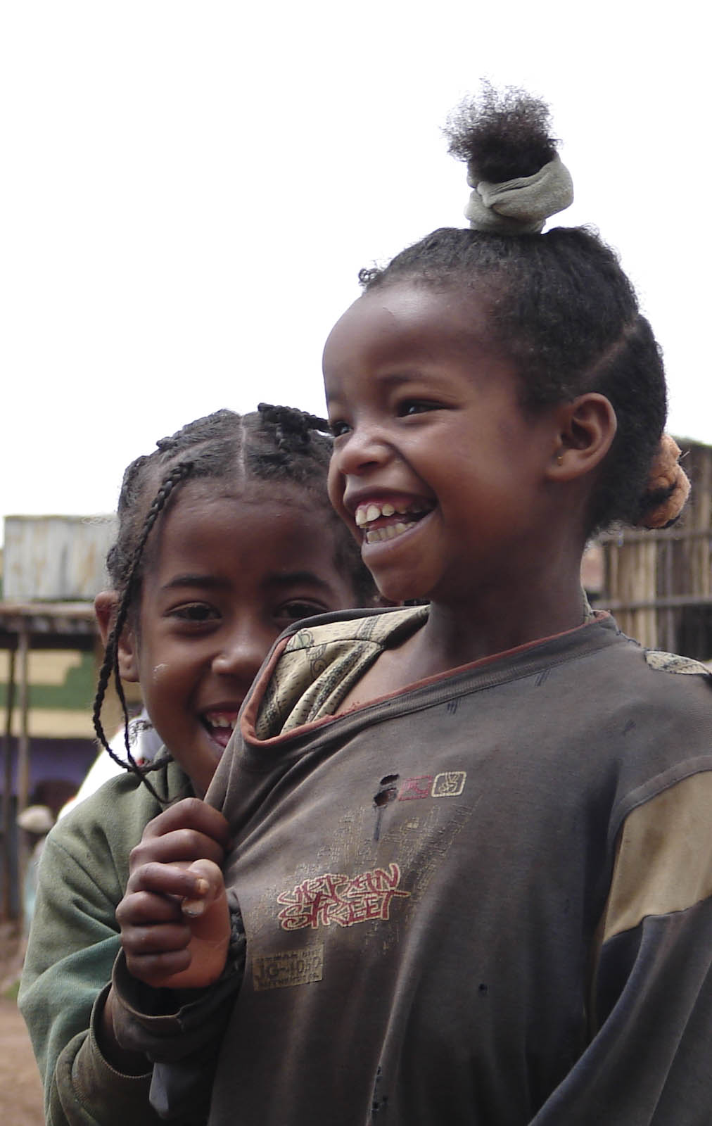 Young girls in Chencha (Ethiopia)